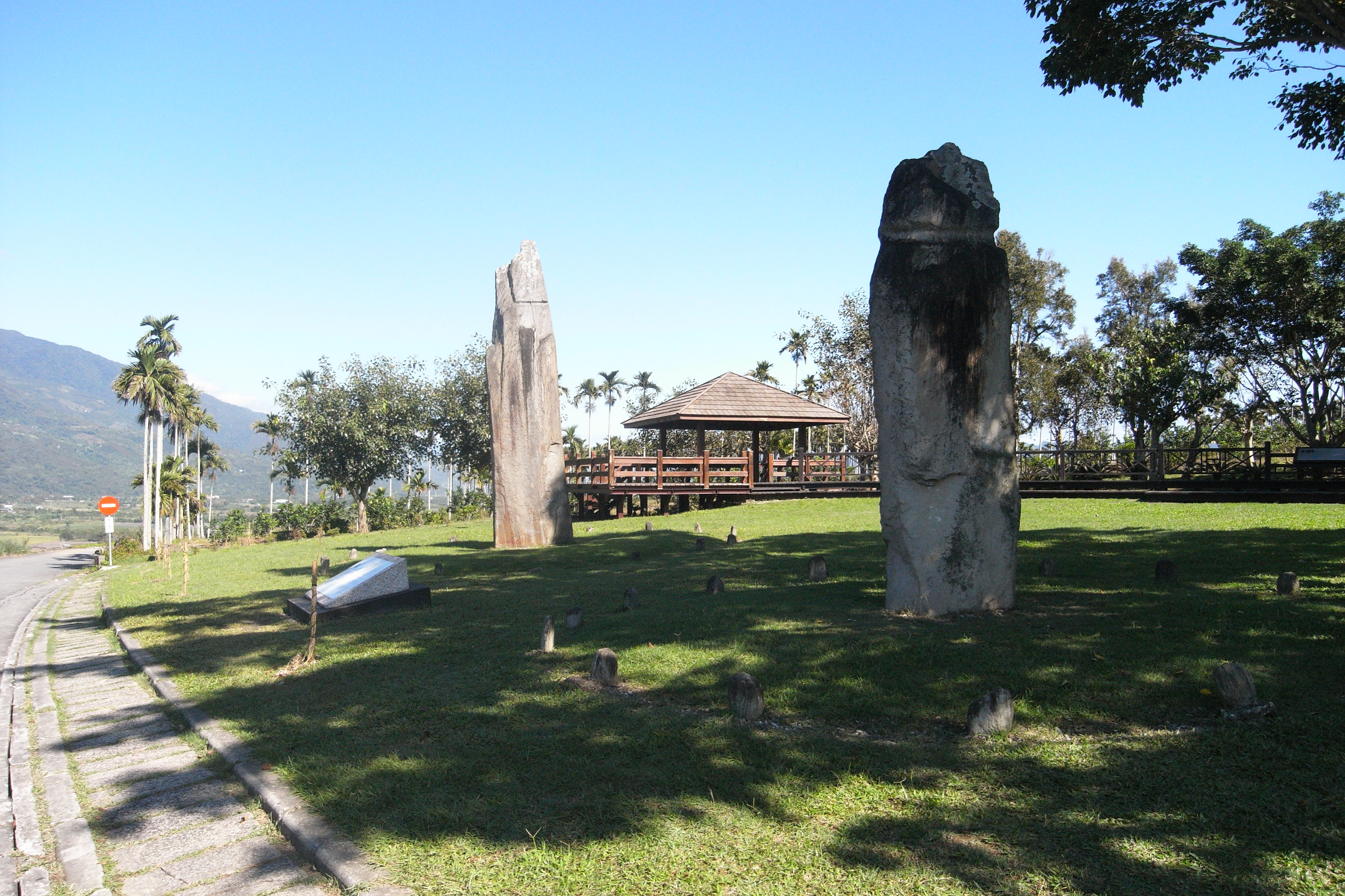 Saoba Stone Pillar, Hualien, Taiwan.